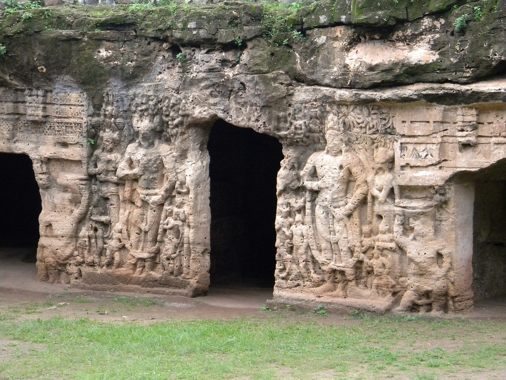 Khambhalida remote village is 20 km from the city of Gondal, in the hills of reservations from the village in 1957-59 otha time in the Lord and the secret treaty of general of Buddhist caves were incredible discovery.